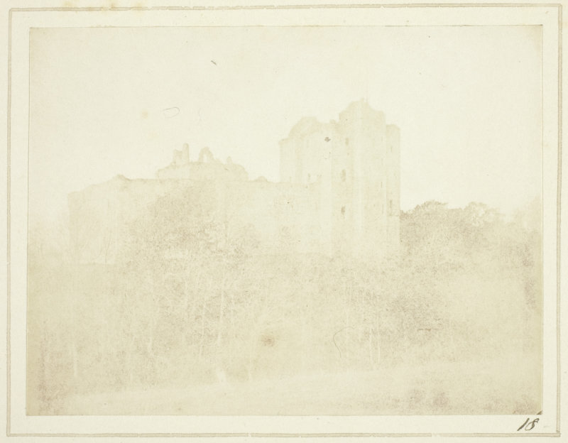 Salted paper print by Henry Fox Talbot, plate XVIII from the album "Sun Pictures in Scotland" (1845)